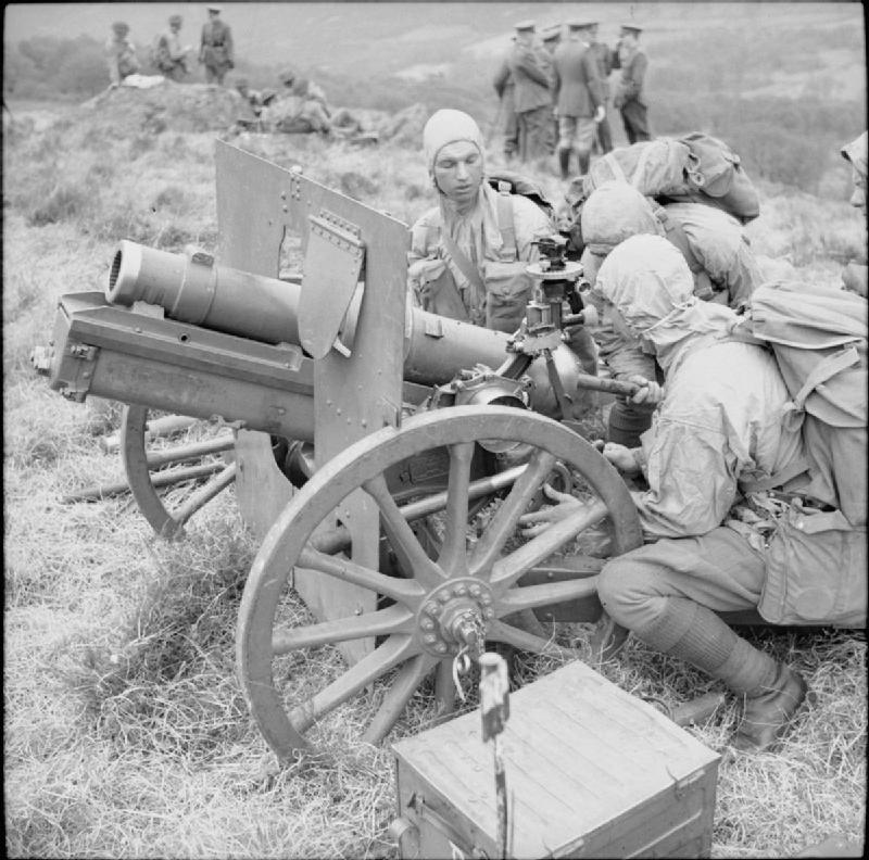 THE BRITISH ARMY IN THE UNITED KINGDOM 1939-45 3.7-inch mountain howitzer and crew of 451st Battery, 1st Mountain Artillery Regiment, Royal Artillery, at Trawsfynydd in Wales, 8 May 1942. The crew are wearing windproof anoraks, mountaineering breeches and woollen stockings.